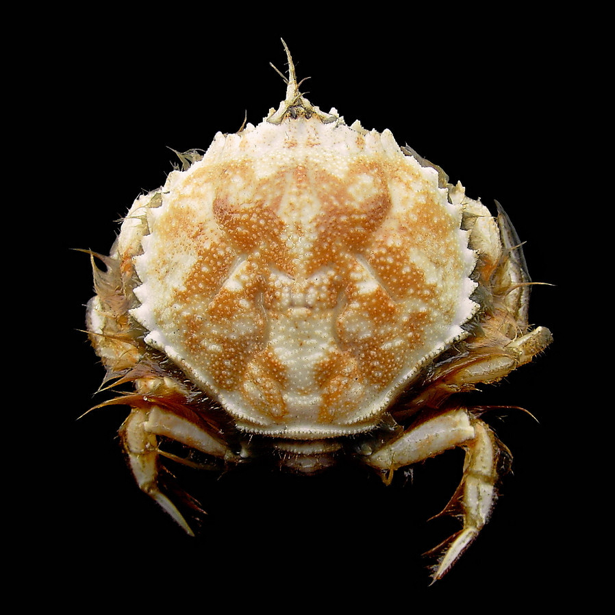 Circular crab from the Belgian coastal waters.